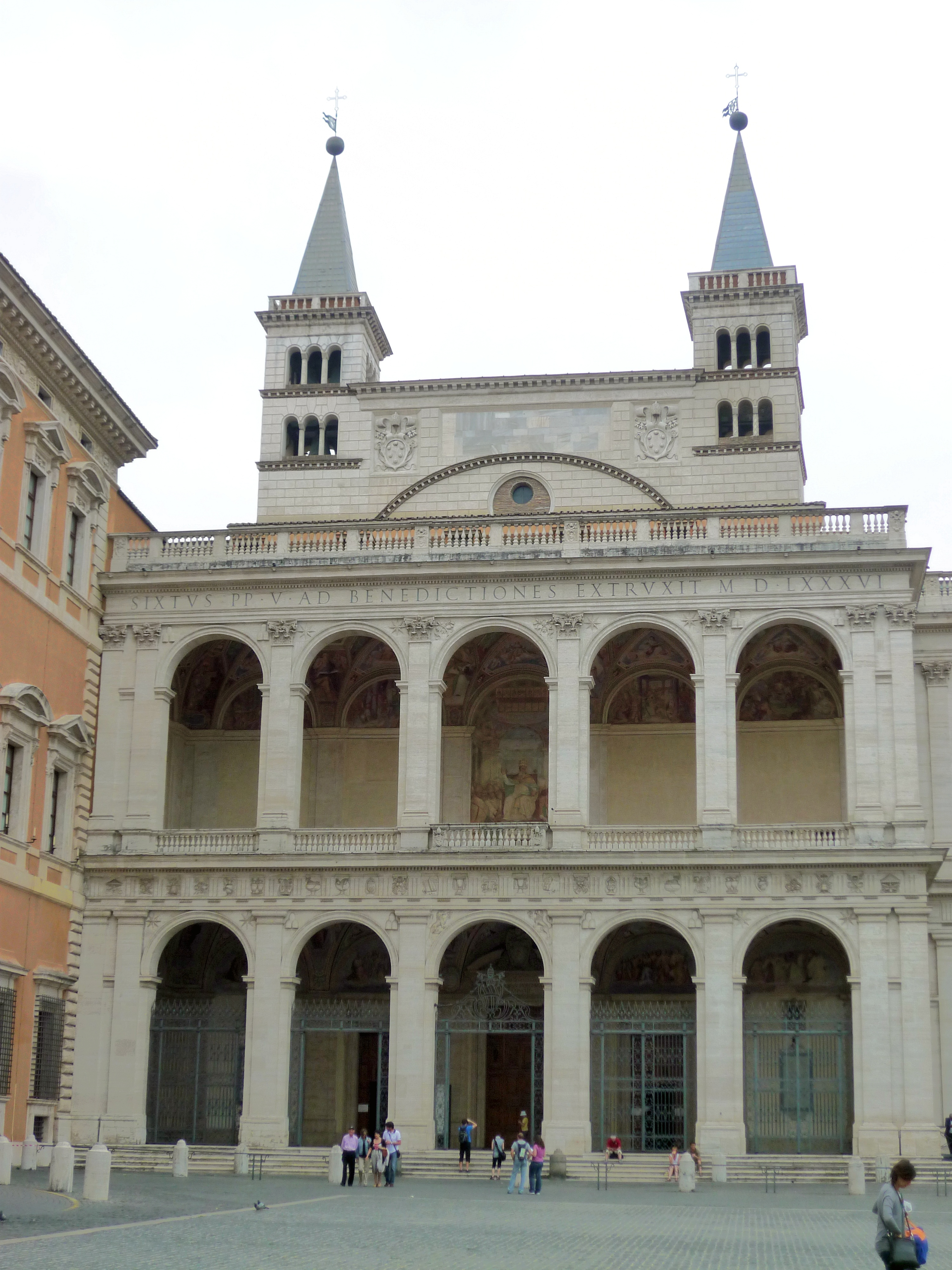 Basilica of St. John Lateran - north facade